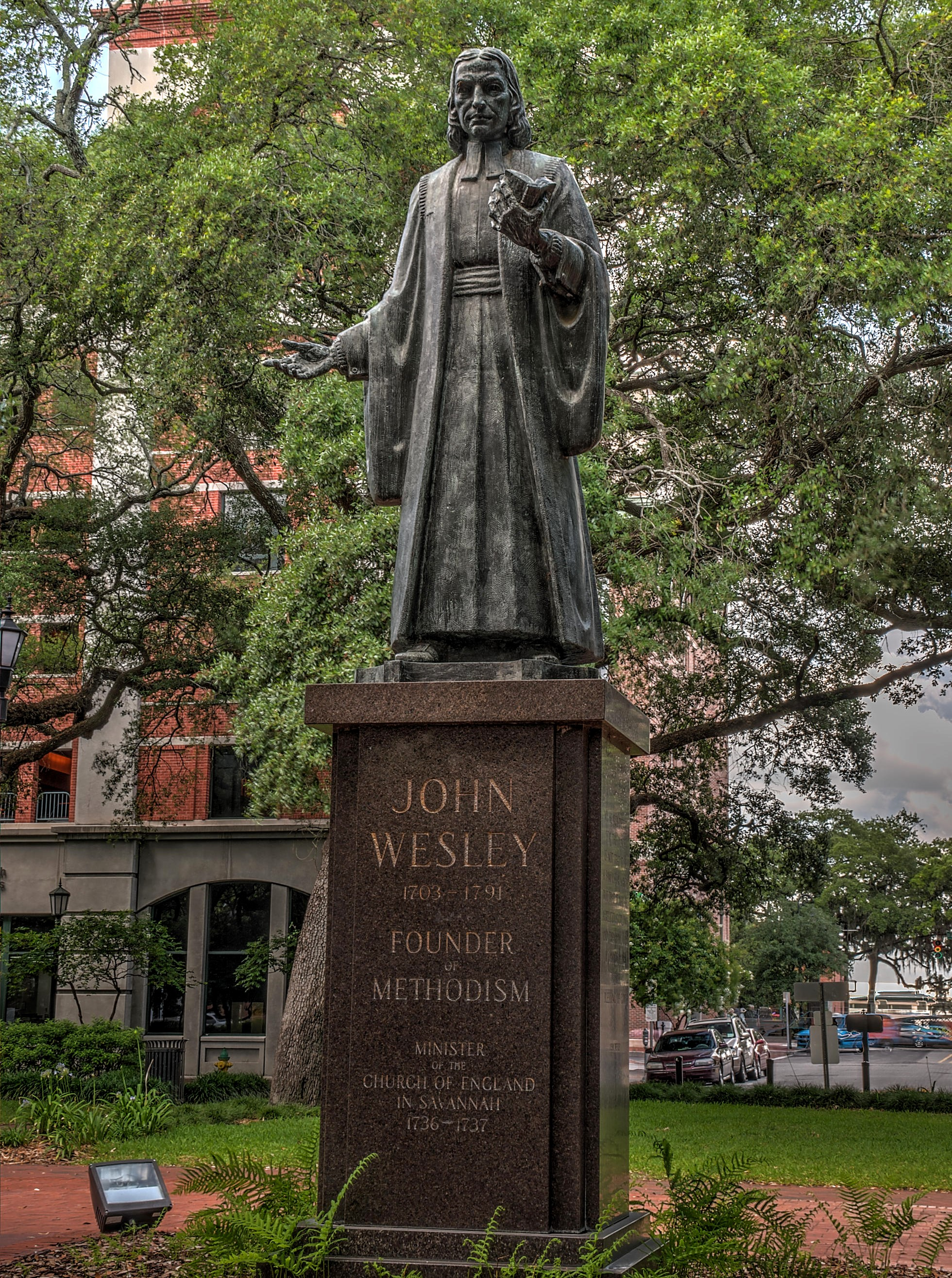 15-17-040: John Wesley Statue